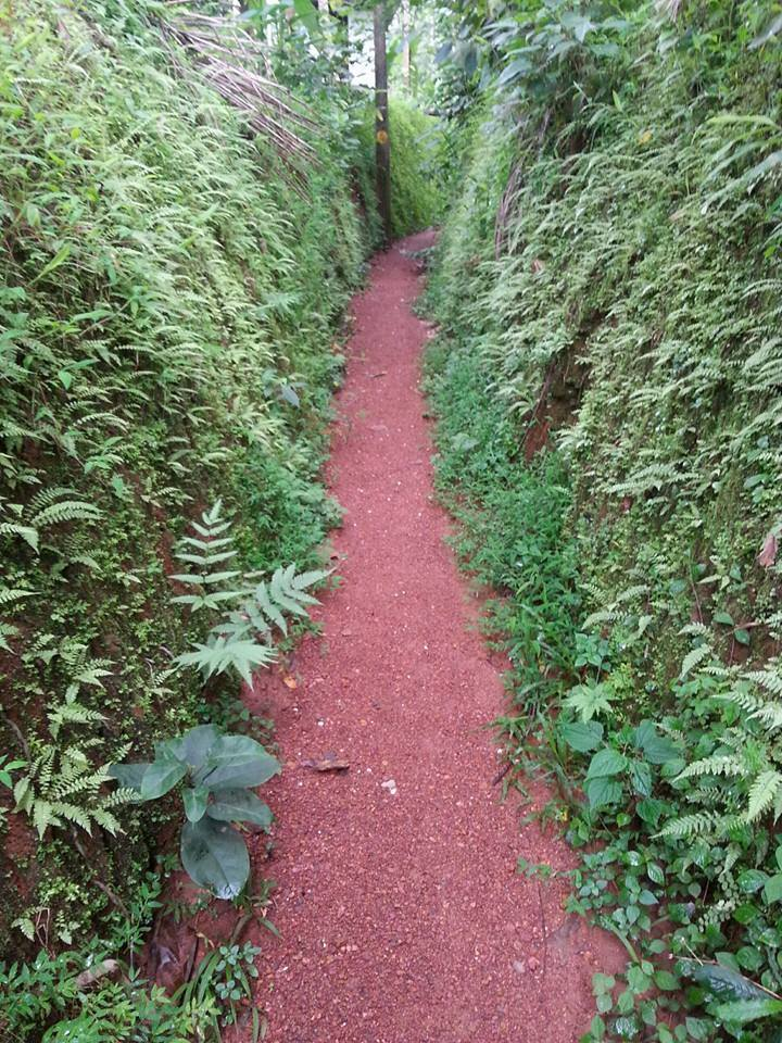 ഗ്രാമീണ പാത